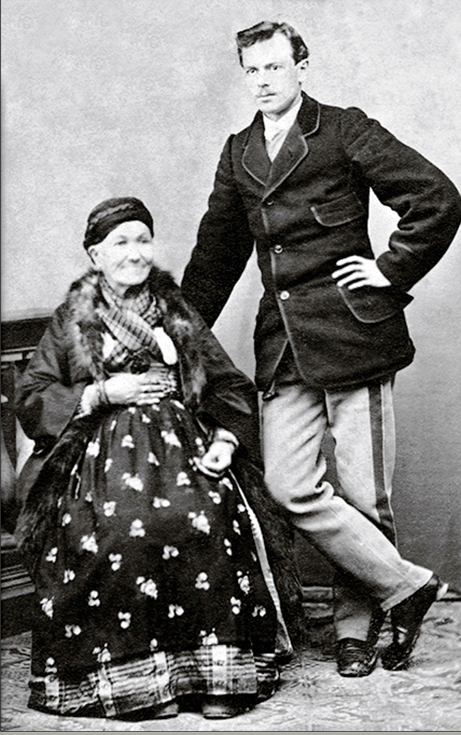 Rada i Petar Bojović, druga polovina 19. veka